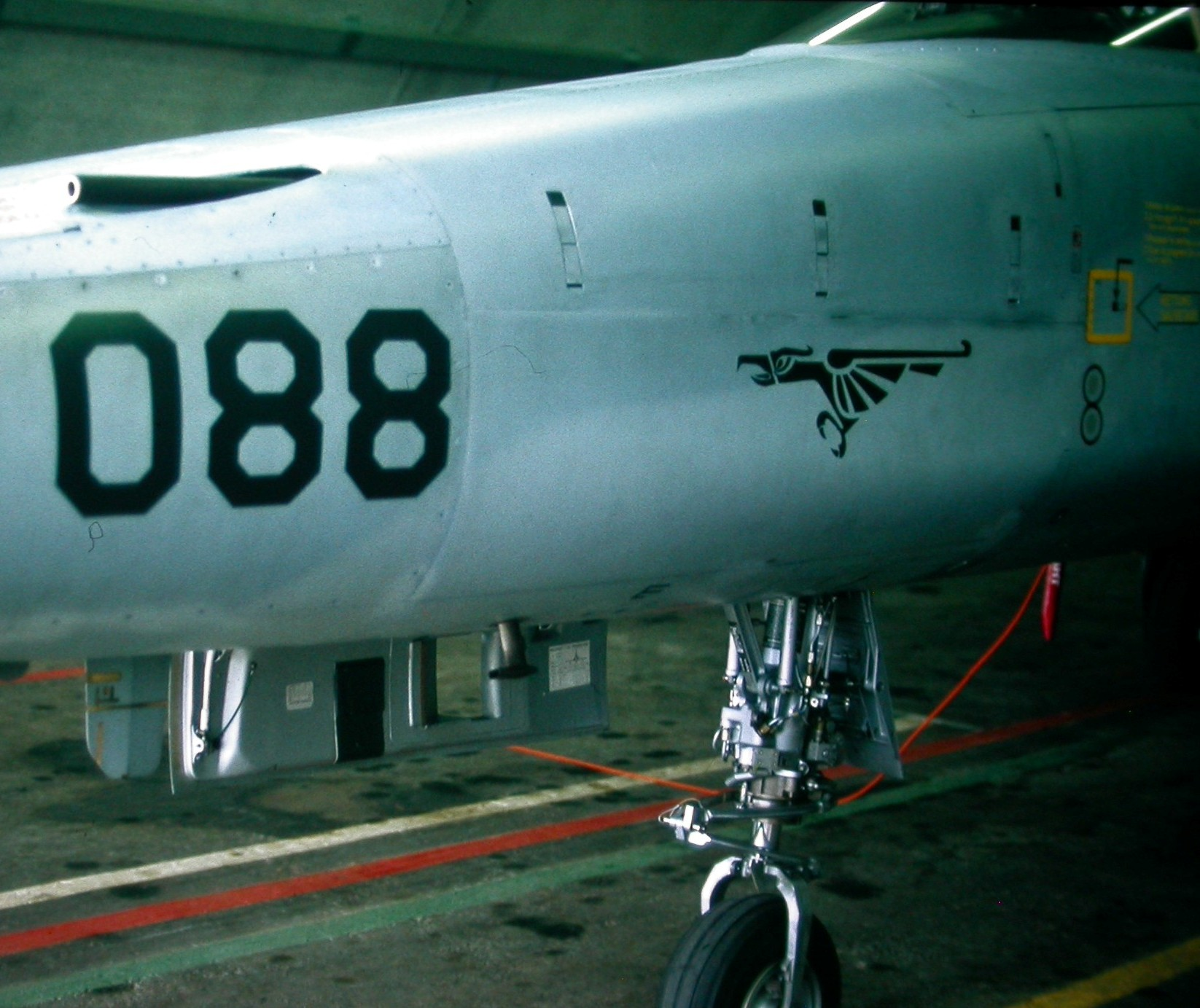 Swiss Air Force No 1 Squadron Emblem on F-5E Tiger II J-3088, which is now an aircraft in Patrouille Suisse livery